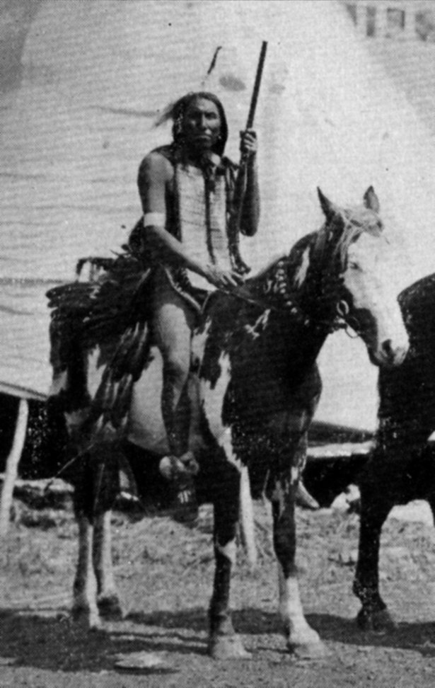 Original caption: "A Glimpse at the Indian Congress - Chief Lone Elk, Sioux on a frame Overo."